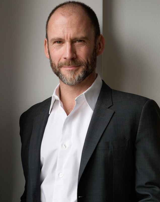 Photo of writer and photographer Bill Hayes